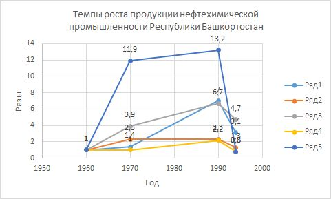 Neftehim plant